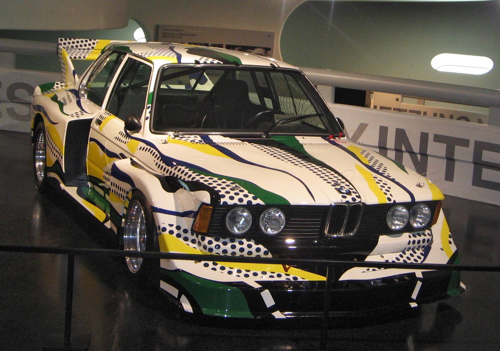 BMW Art Car (BMW 320i Turbo) designed by Roy Lichtenstein at BMW Museum Munich